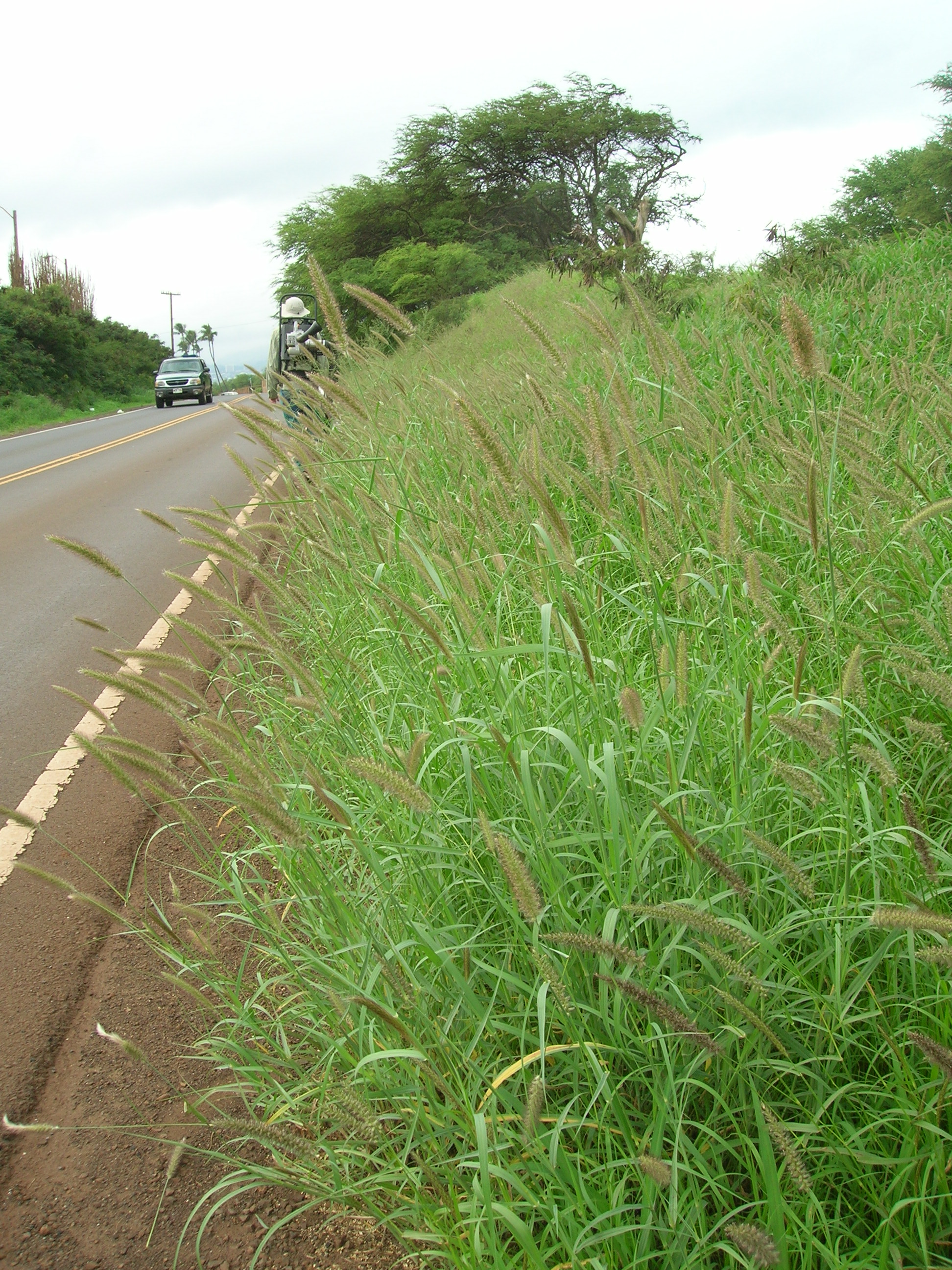 Pennisetum polystachion (habit). Location: Maui, Kahului Airport